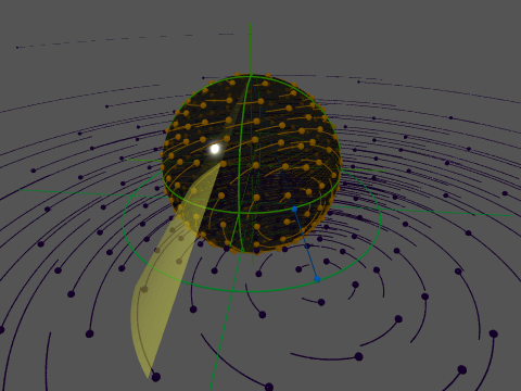 Mobius transformation, showing stereographic projection between plane and sphere. Generated with POVRAY. Povray file created with a java program. Donated to the Public Domain.